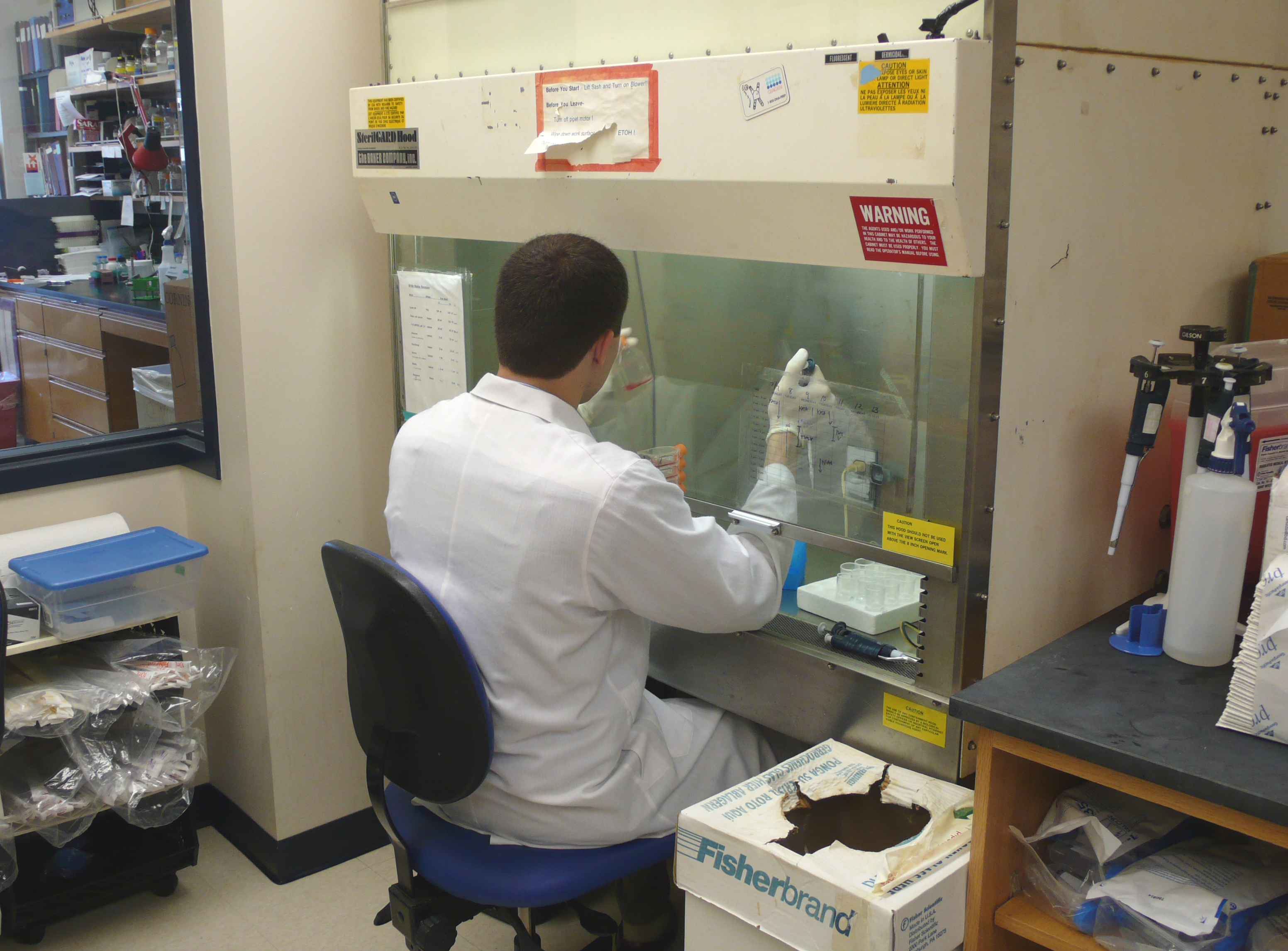 Microbiologist working on Leishmania under category 2 biocontainment conditions